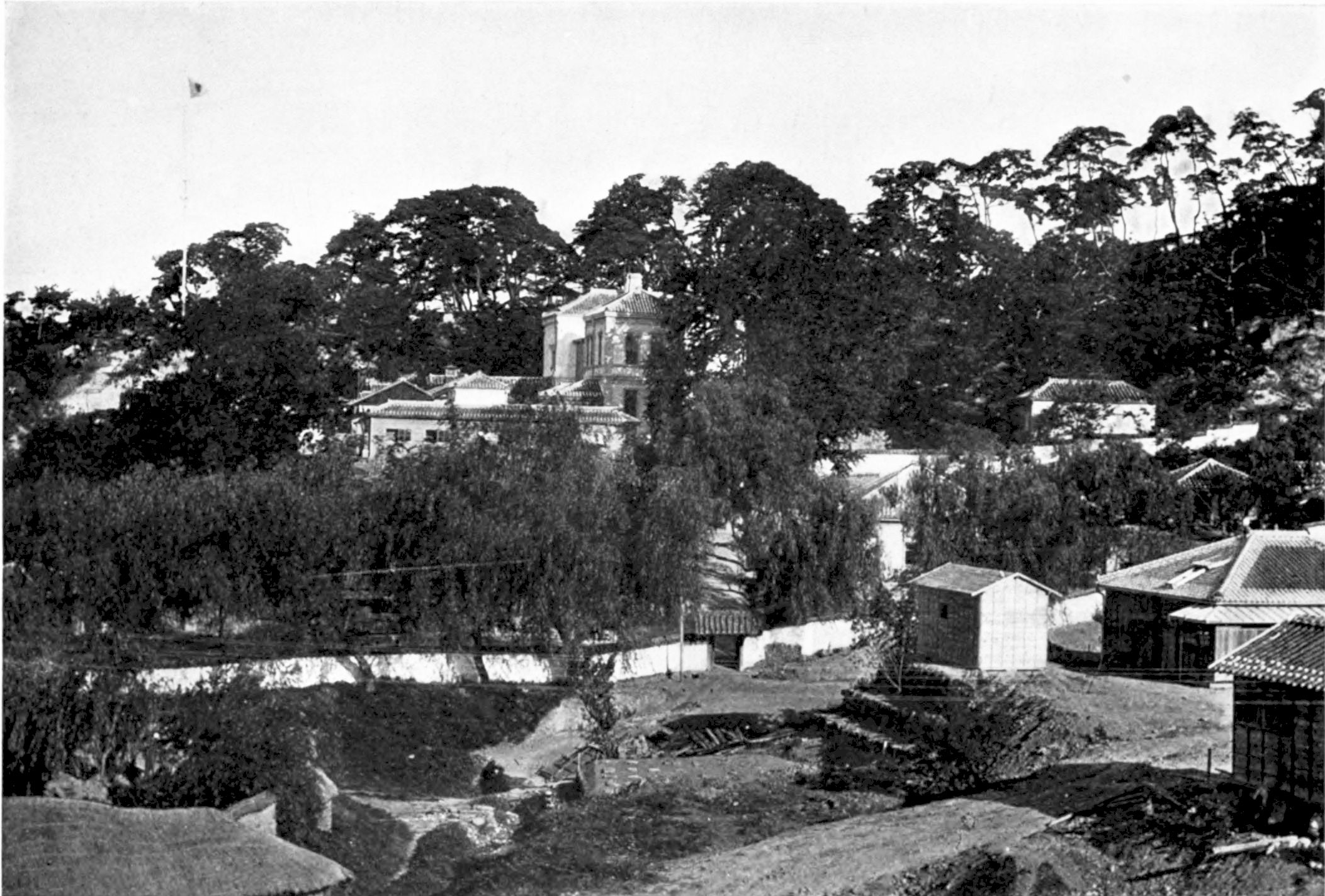 Japanese legation to Korea, c.1900; p.239 The passing of Korea (book)